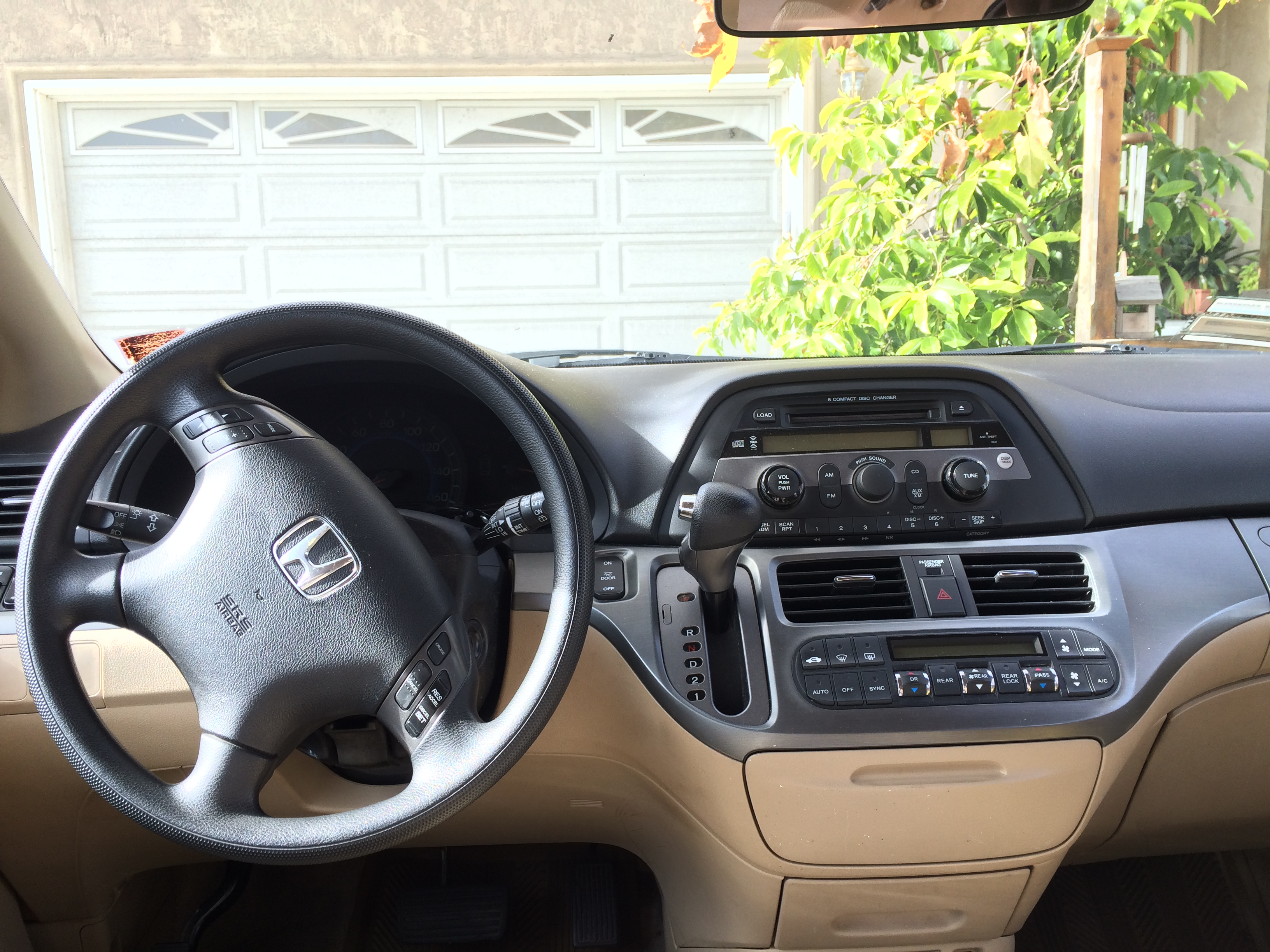 Dashboard of 2005 Honda Odyssey EX-L w/ beige interior color option